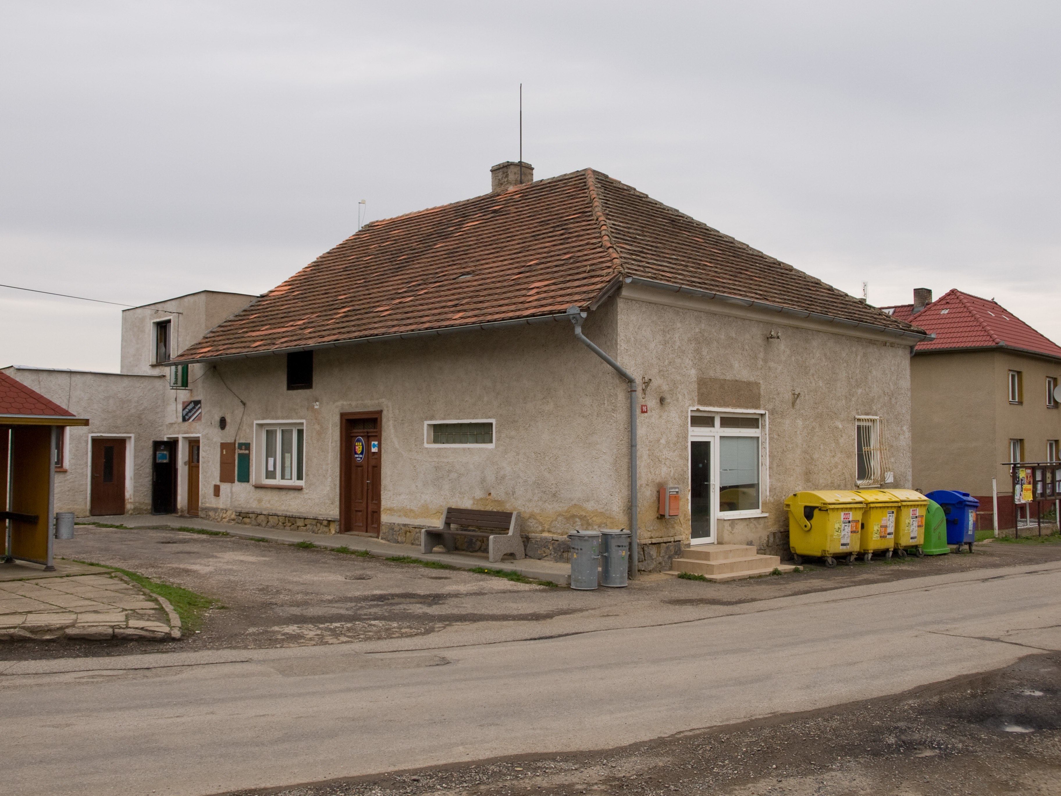 Obecní úřad, Otmíče, okres Beroun, Středočeský kraj, Česká republika